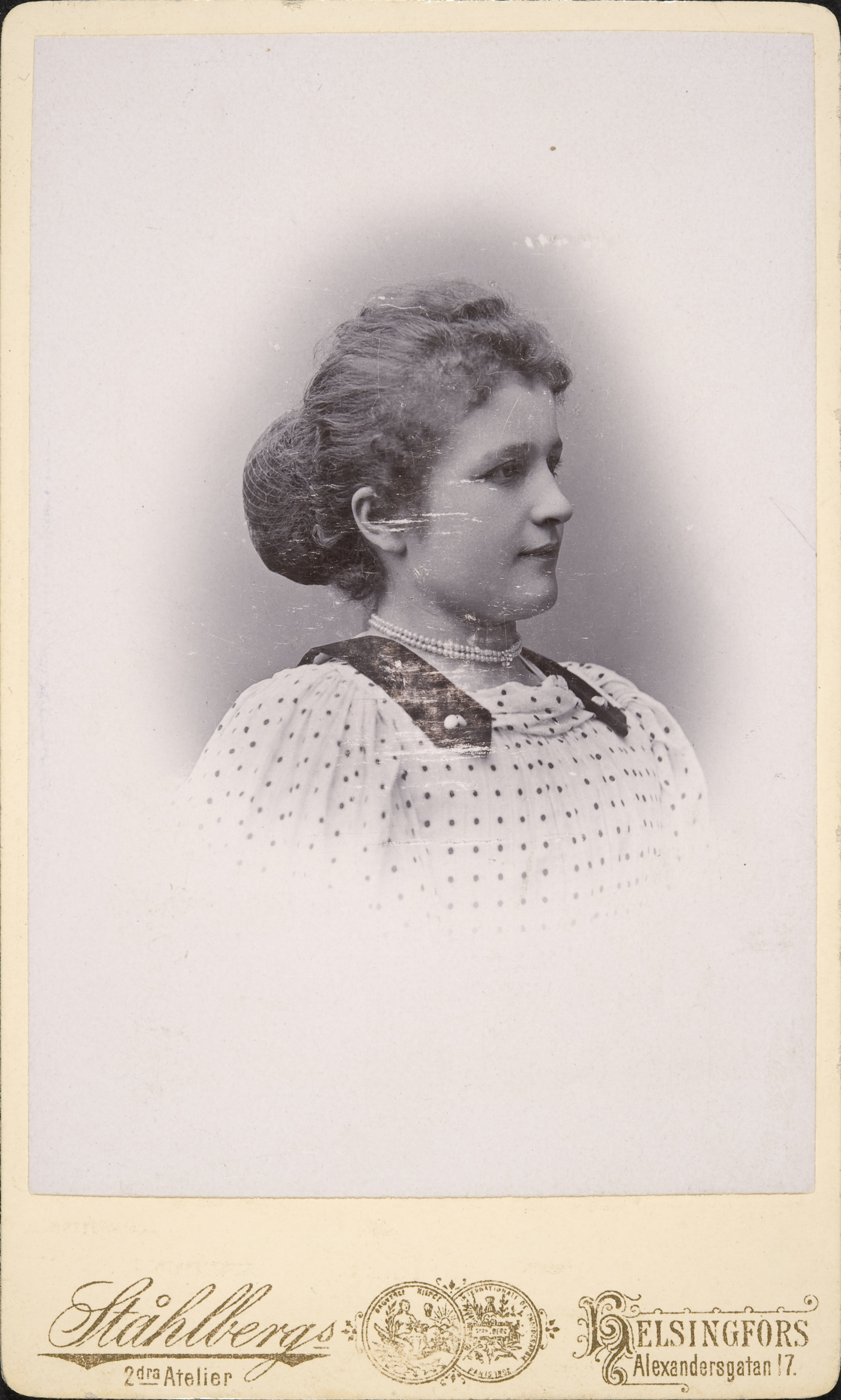 The Finnish singer and actress Aino Haverinen in Helsinki in the 1890s, photo by K. E. Ståhlberg